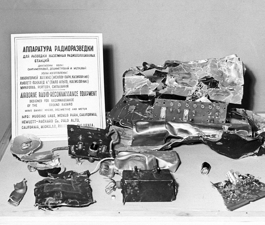 “Exhibition of remains of U.S. destroyed U-2 spy-in-the-sky aircraft”. Exhibition of remains of U.S. U-2 spy-in-the-sky aircraft destroyed on May 1, 1960 near Sverdlovsk (currently Yekaterinburg). Gorky Central park of Culture and Leisure. Radio reconnaissance equipment.